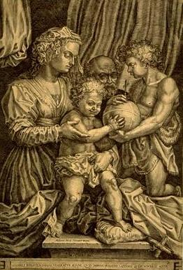 The Holy Family with St. John the Baptist